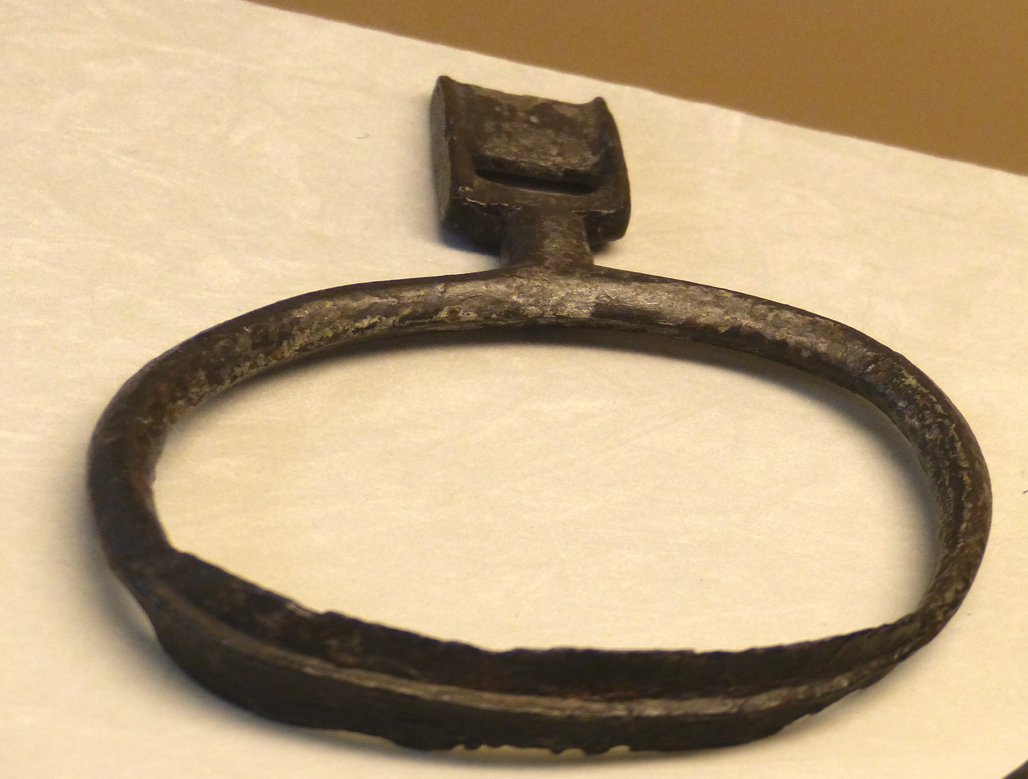 Eisenstadt ( Austria ). Burgenland Country Museum: Stirrup of the Avars.